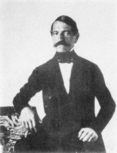 Ilija Garašanin (Serbian Cyrillic: Илија Гарашанин) (1812 — 1874), Serbian politician with considerable influence in national affairs.